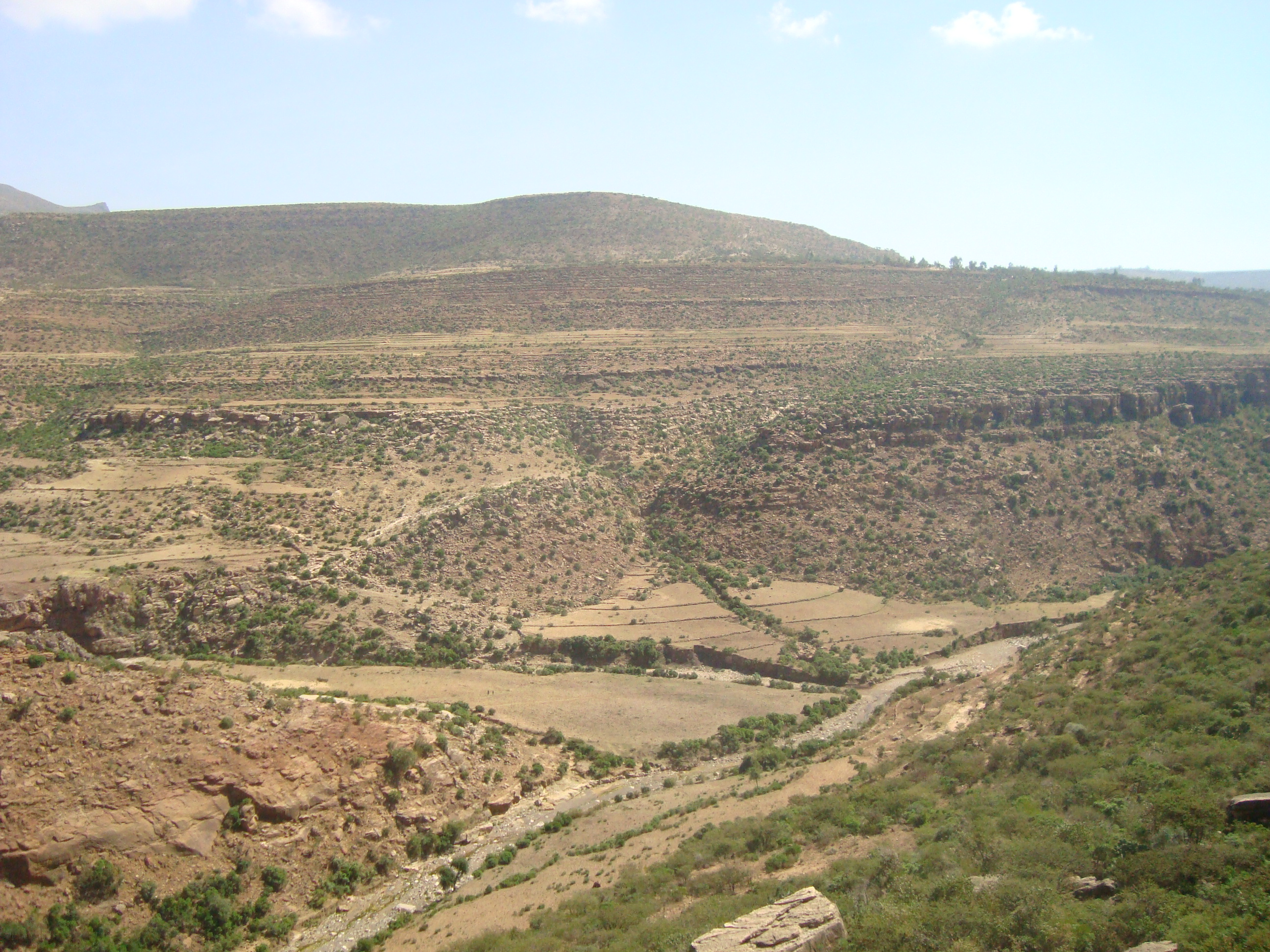 confluence MB MZZ